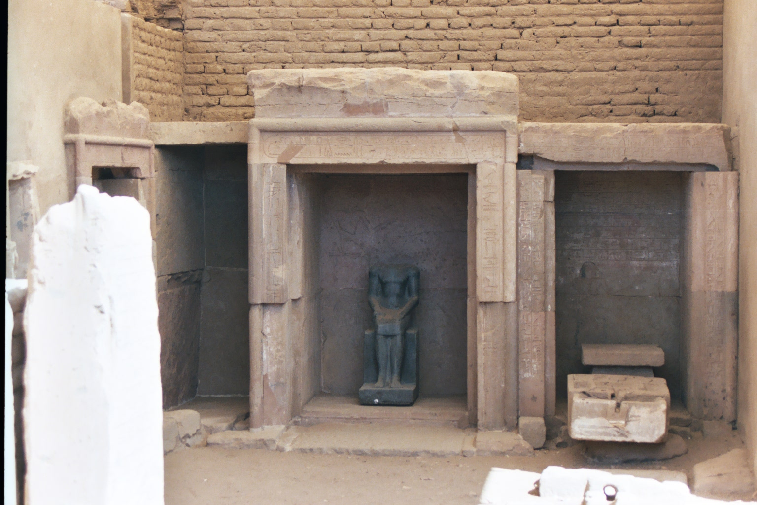 The sanctuary of the divinized nomarch Heqaib at Elephantine in 2007. In the middle, a niche built by Senusret I.